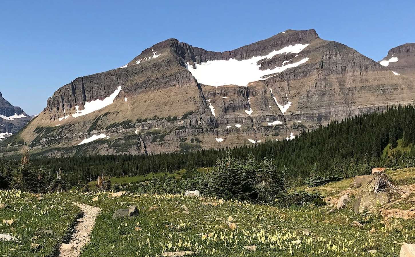 Piegan Mountain with Piegan Glacier seen from Preston Park, Glacier Park, Montana